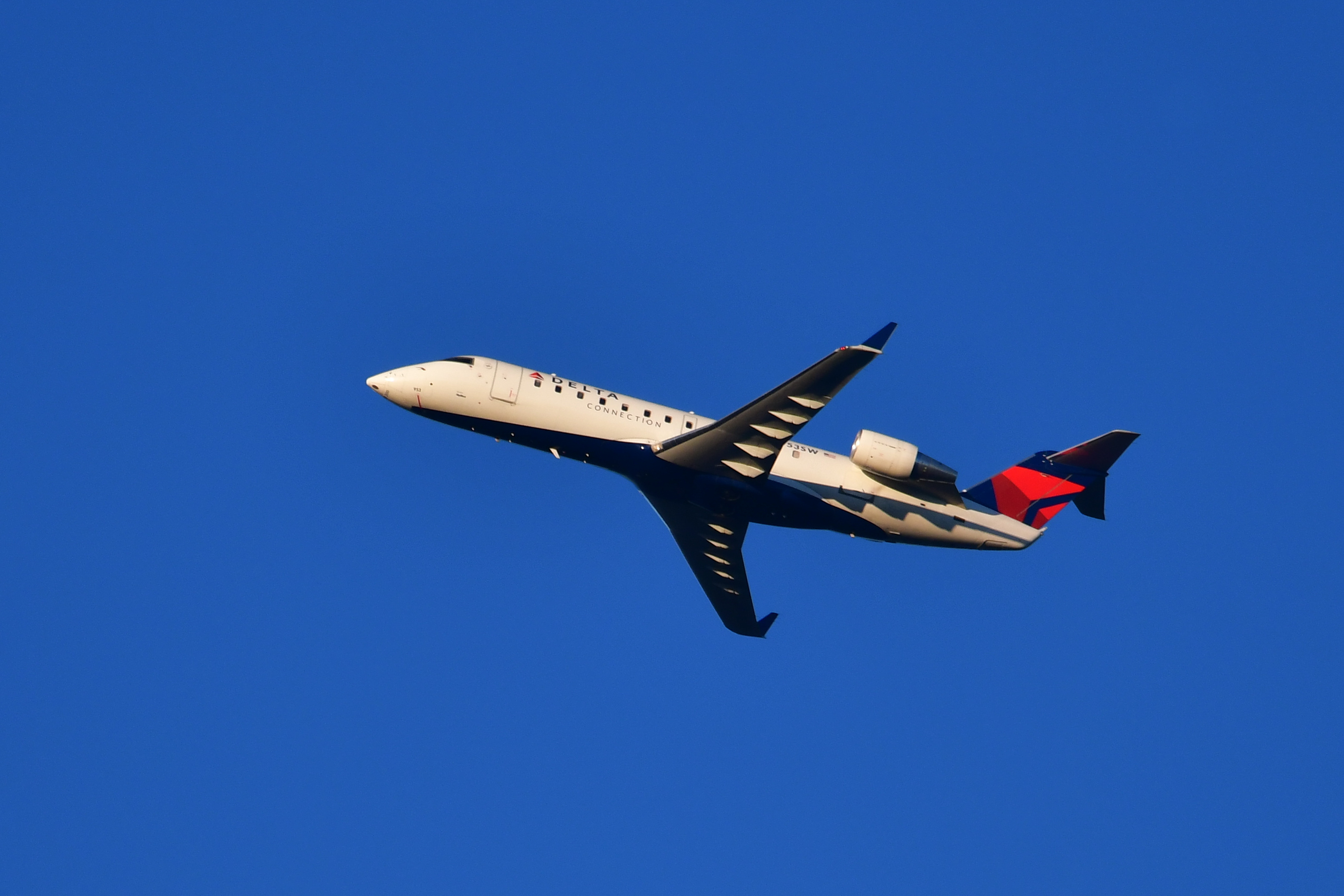 An airplane passes over Lake Harriet on its way from Minneapolis-St. Paul International Airport.